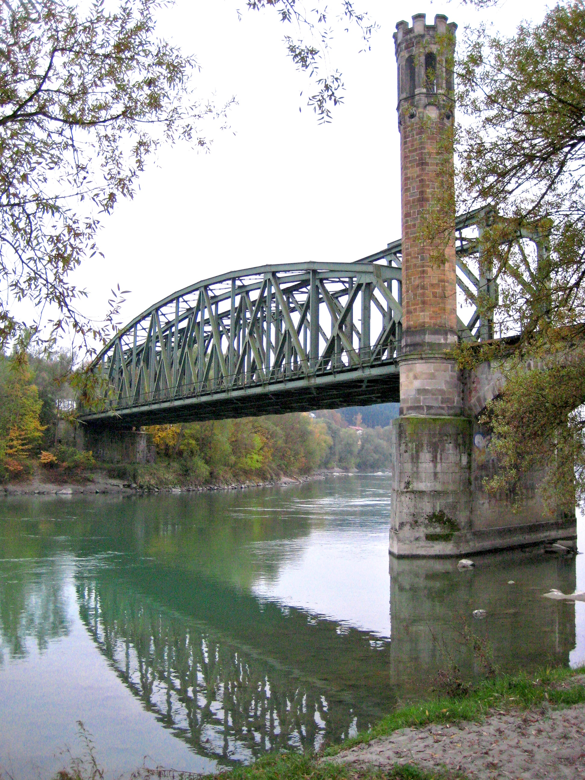 Railway bridge “Kaiserin-Elisabeth-Brücke” across the Inn in Passau